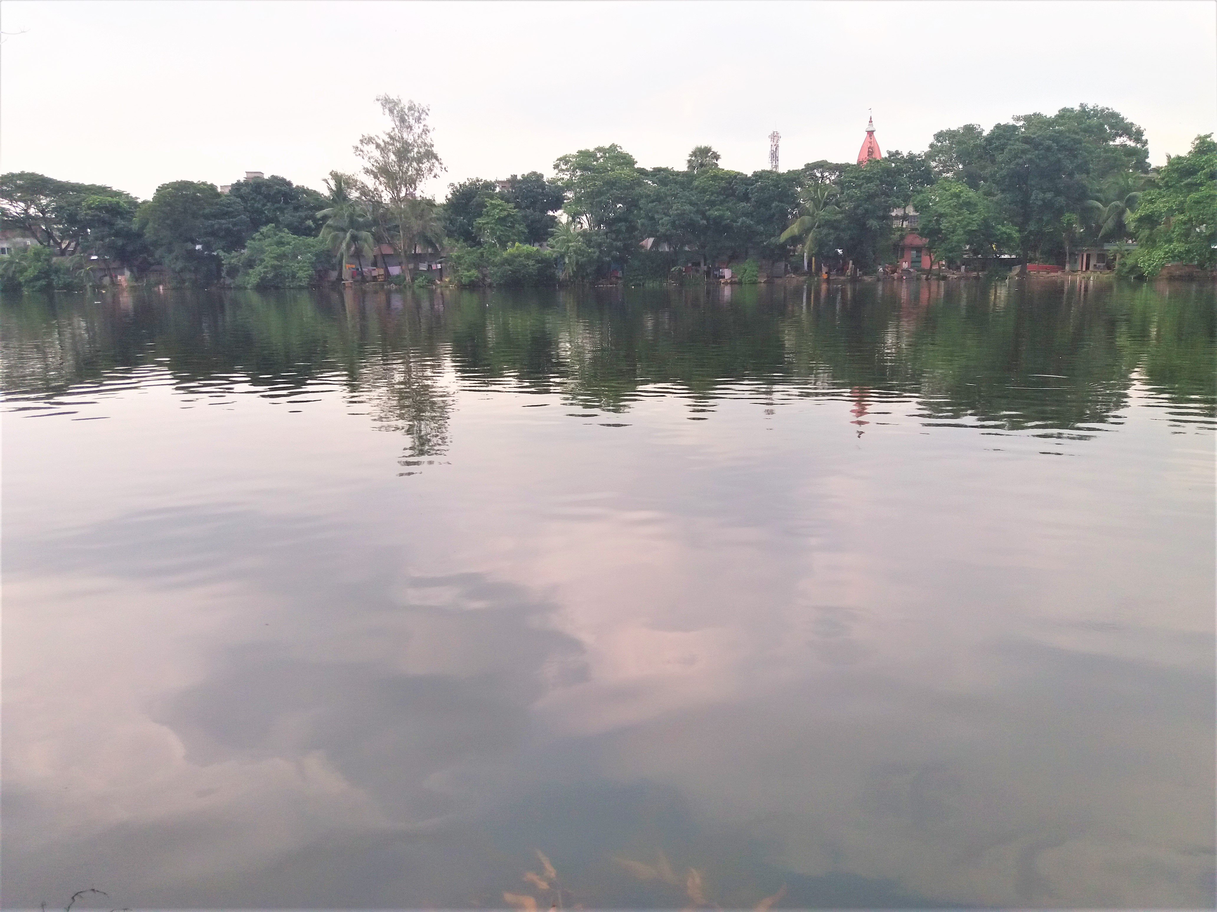 মানসিংহ কর্তৃক খনন করা দিঘি, রাজারবাগ, বাসাবো, ঢাকা